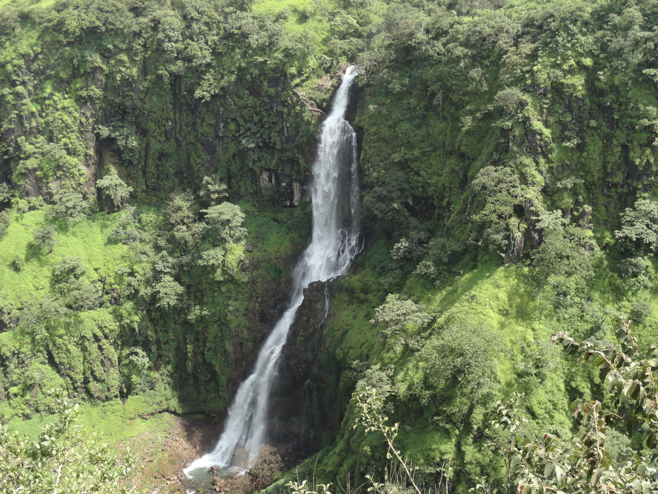 Thoseghar Waterfalls in Satara district, Maharashtra